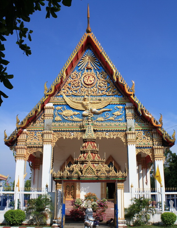 Wat Phutta Mongkhon Nimit, Phuket City, Thailand